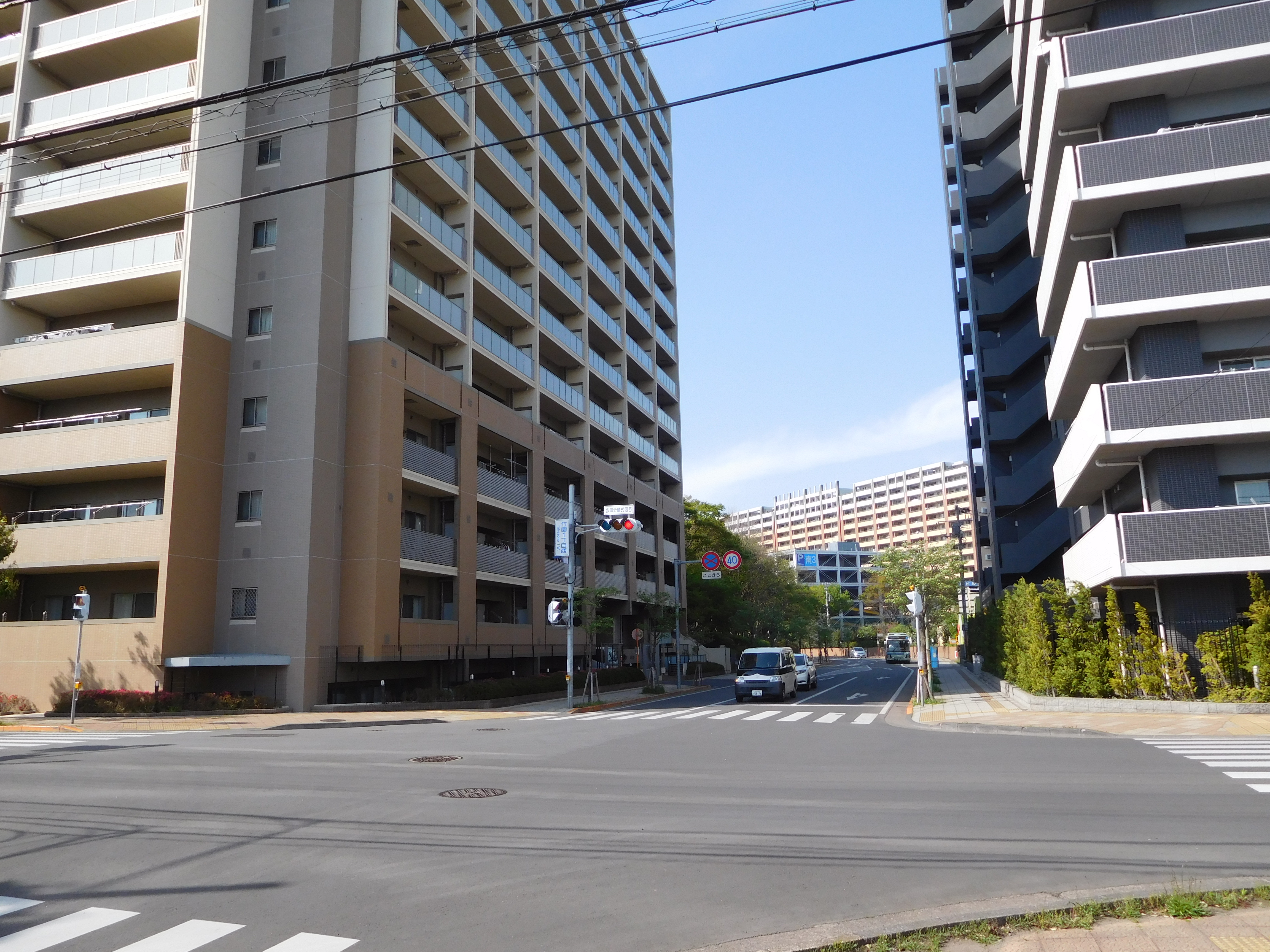 This is a landscape of Takezono 1 chome, Tsukuba city, Ibaraki prefecture, Japan.